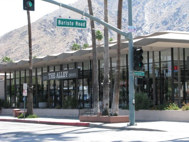 Former Robinson's Department Store, designed by Pereira & Luckman and built in 1958. {1}